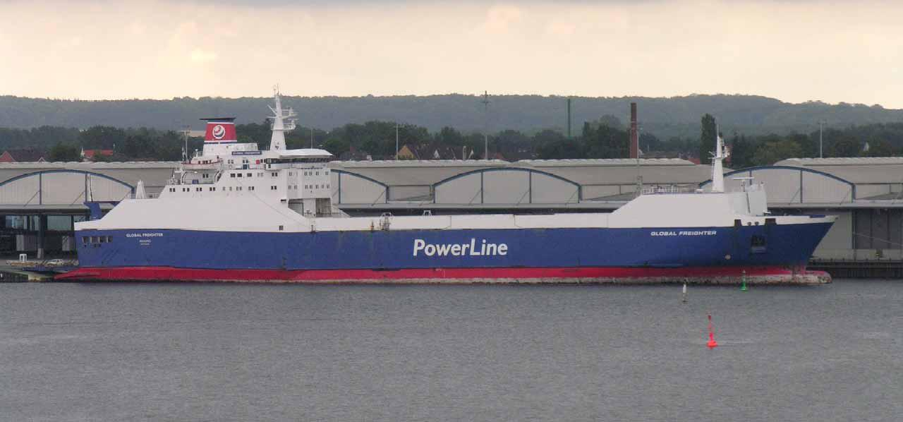 Finnish RoRo ship M/S Global Freighter.